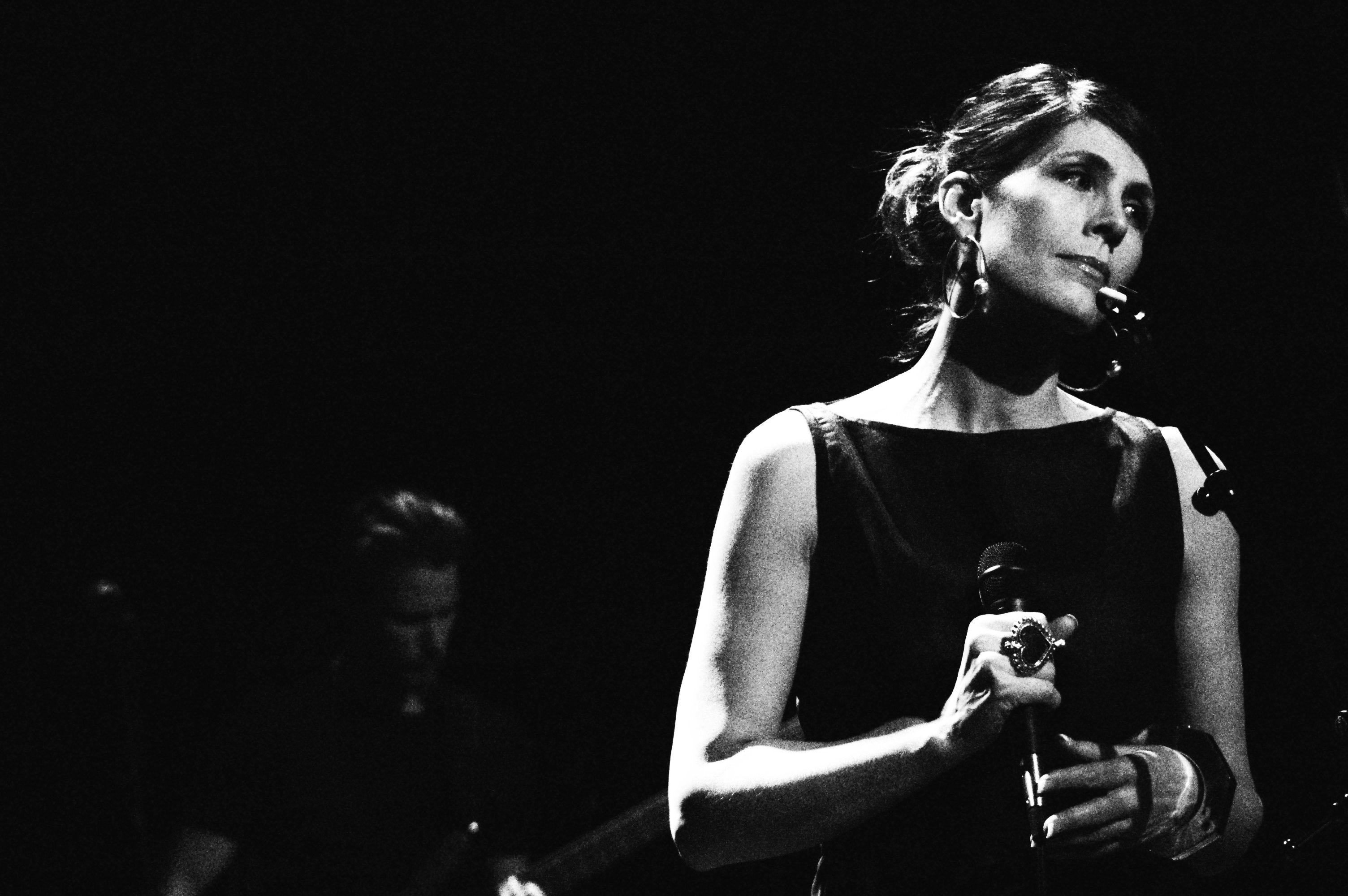 Kari Bremnes